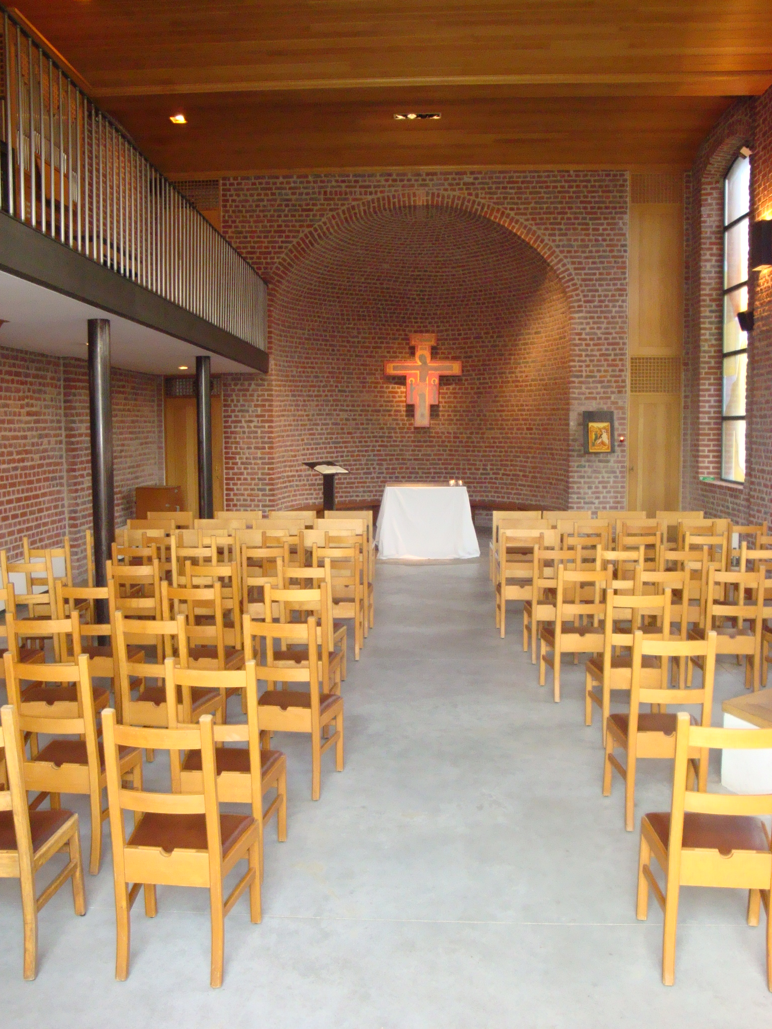 Chapelle de la Résurrection, rue Van Maerlantstraat 22-24, B-1040 Brussel Bruxelles, Interior: liturgical main room